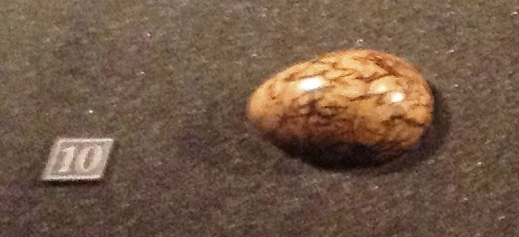 Beaty Biodiversity Museum LocationVancouver, British Columbia, CanadaCoordinates49° 15′ 48.96″ N, 123° 15′ 05.04″ W Established2010Web pageBeaty Biodiversity MuseumAuthority control : Q4120770 institution QS:P195,Q4120770